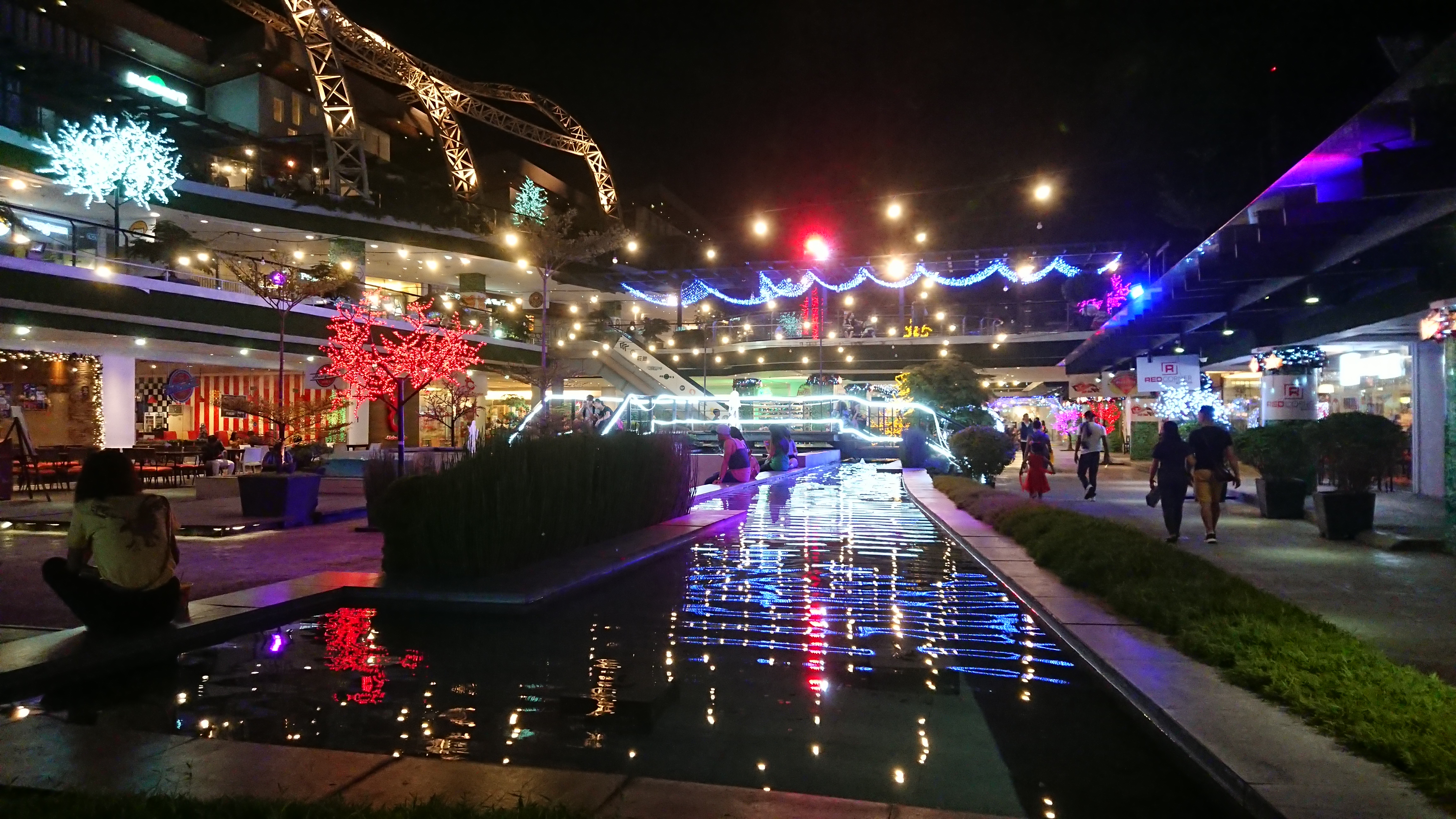 Viewing platform of the GMall of Davao City, Philippines on 29 October 2018.